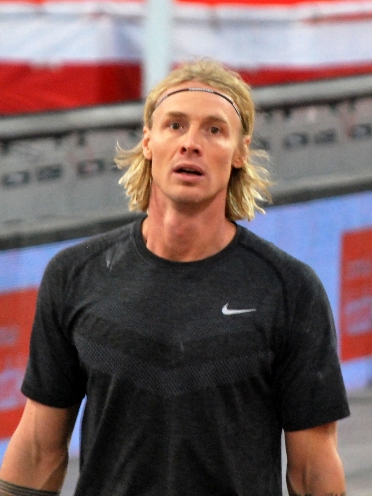 Michal Balner, pole vaulter from Czech Republic, Pedro's Cup Łódź 2016